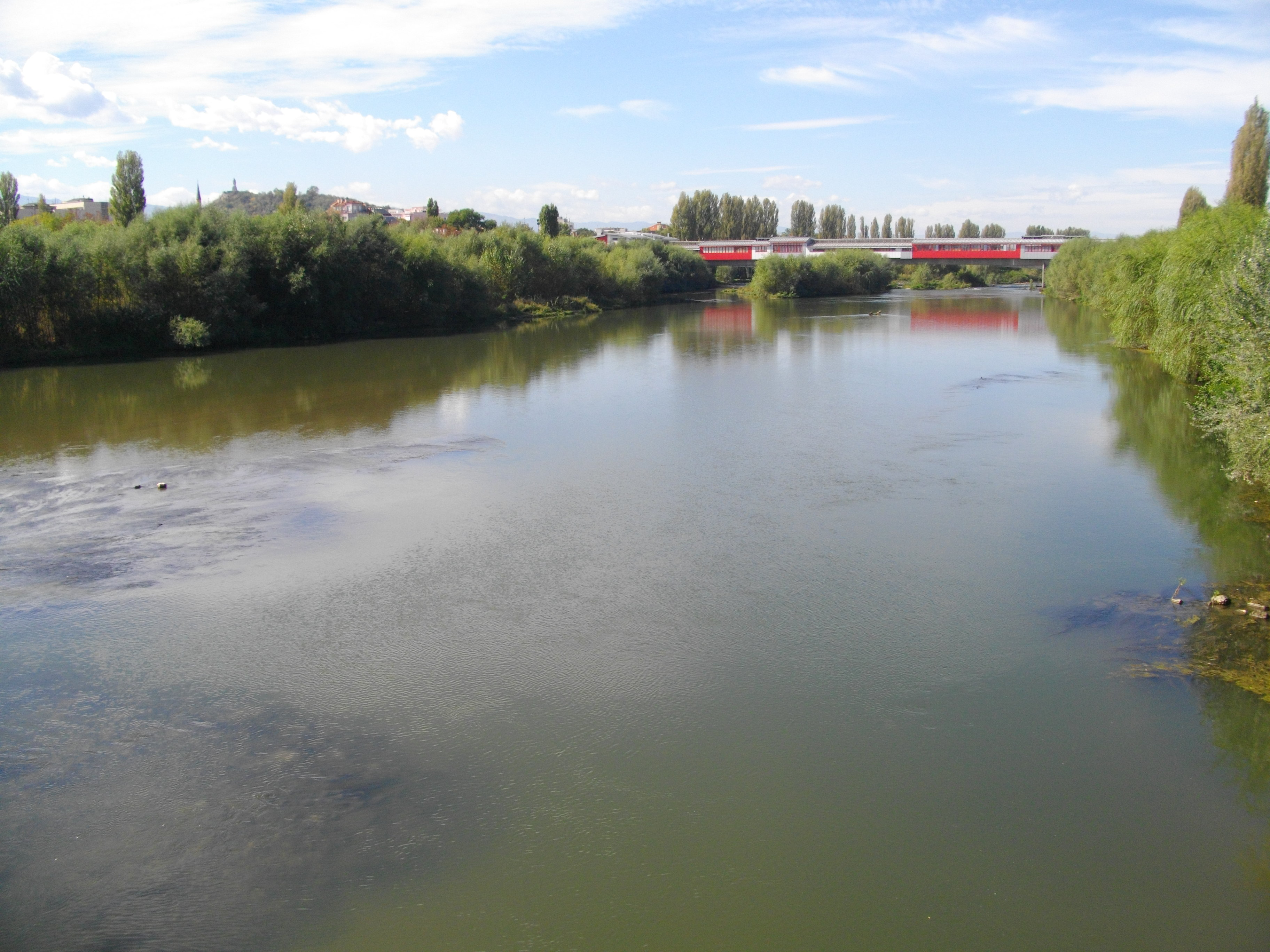 Maritsa in Plovdiv